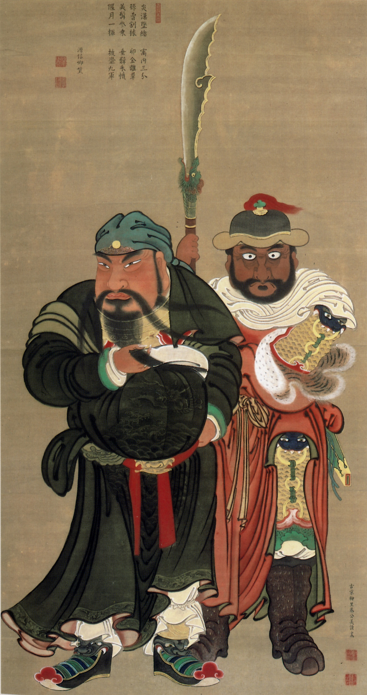 Guanyu_Yanagisawa_Kien_inscription_by_Yanagisawa_Korenobu_hanging_scroll_color_on_silk_Tokyo_National_Museum.jpg